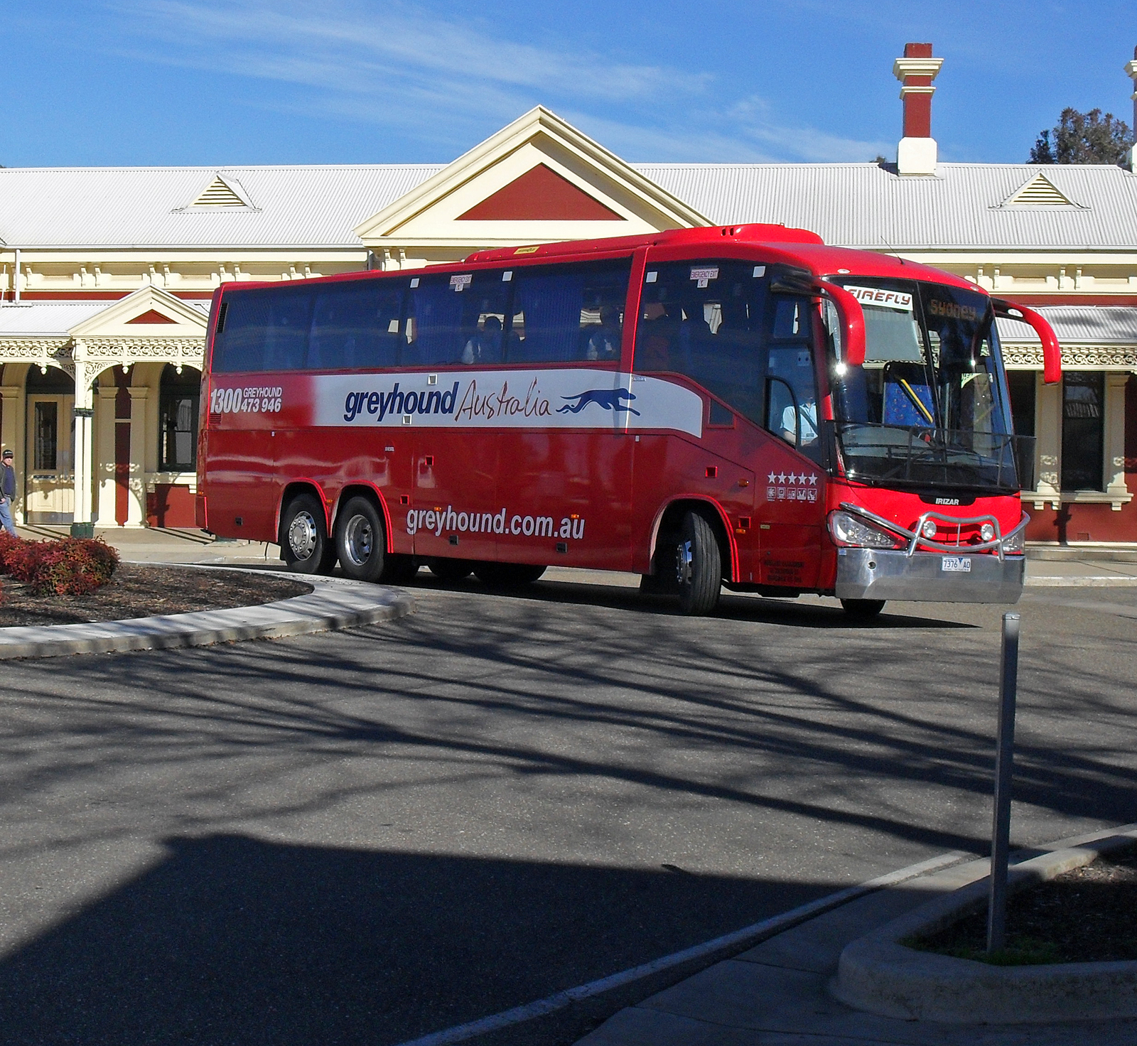 Irizar 'Century' bodied Scania K380IB operated by Greyhound Australia leaving Wagga Wagga Railway Station.